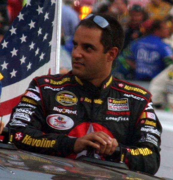 NASCAR and former Formula One driver Juan Pablo Montoya at the August 2007 NASCAR race at Bristol Motor Speedway. Cropped from original.